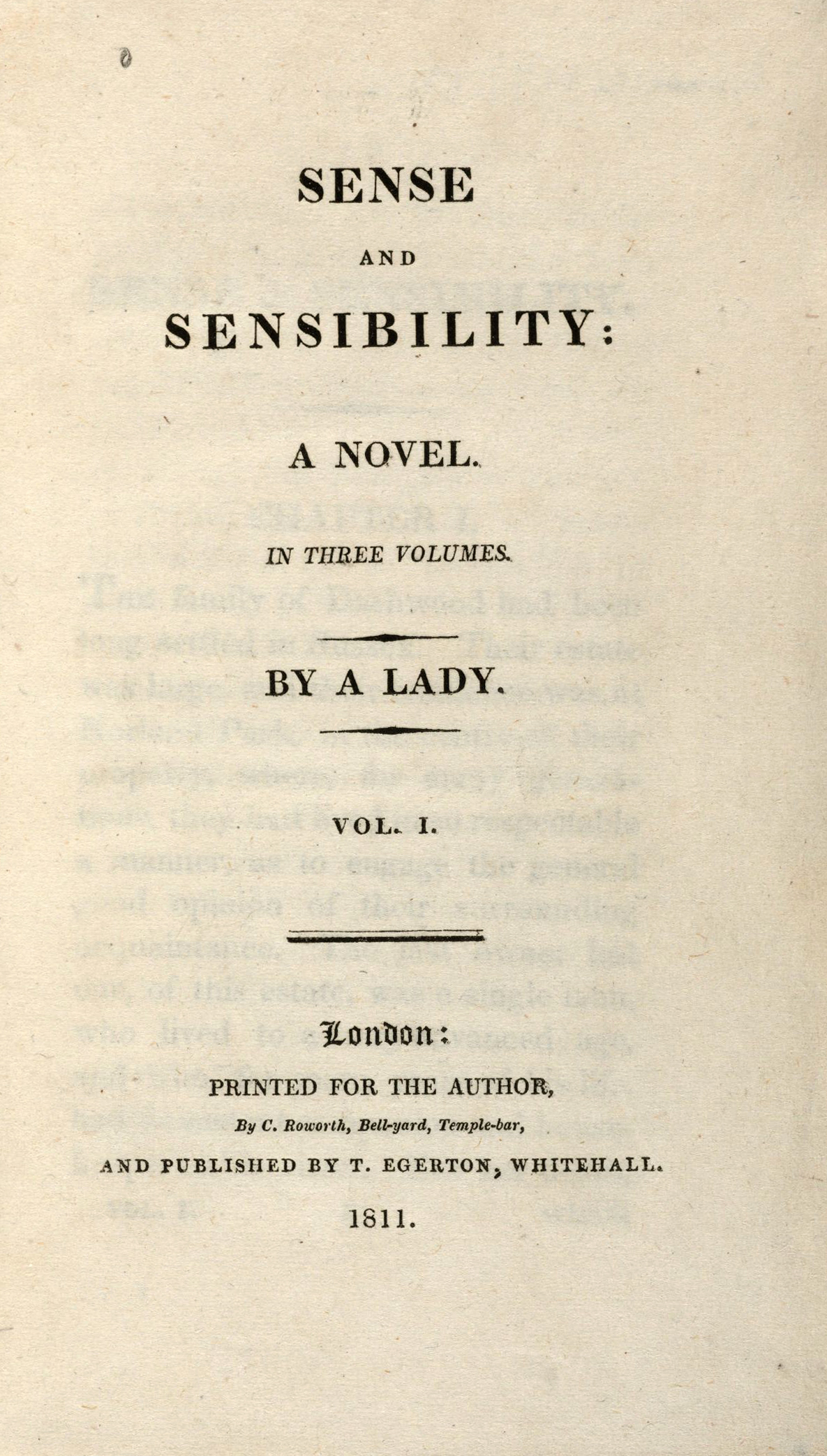 Title page from Sense and Sensibility: a novel, London: 1811, by Jane Austen (1775-1817). First edition. Cropped from original. *EC8 Au747 811s (B), Houghton Library, Harvard University